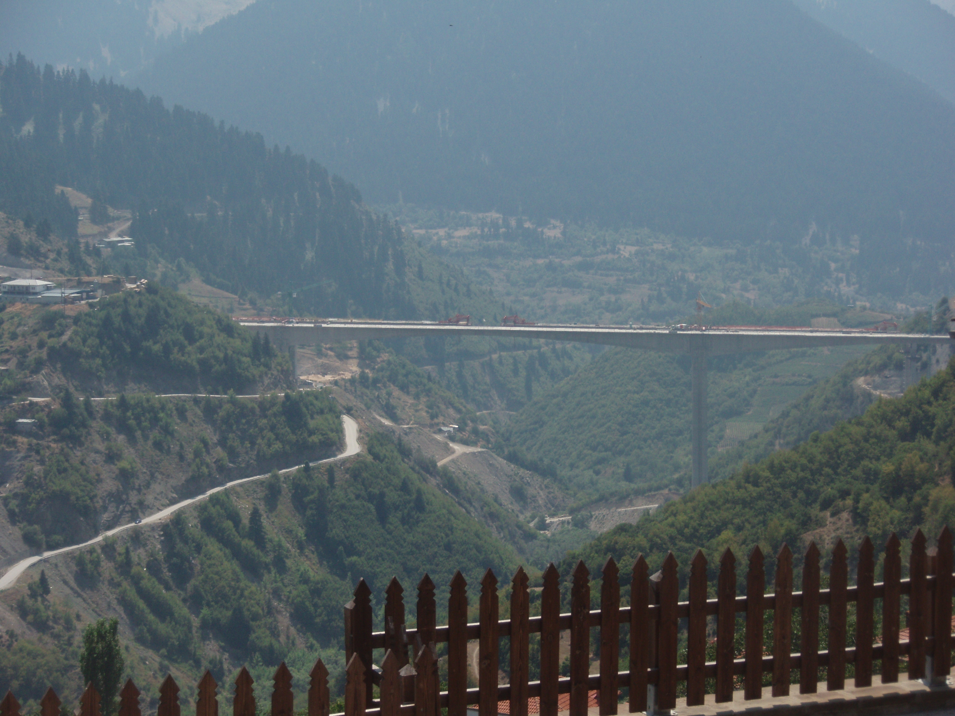 Metsovitikos bridge of motorway A2 (Egnatia Odos) in Metsovo, Ioannina prefecture, Greece. The bridge spans over the valley of Metsovitikos river south of the village of Metsovo.